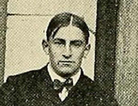 James E. Halligan, UMass coach